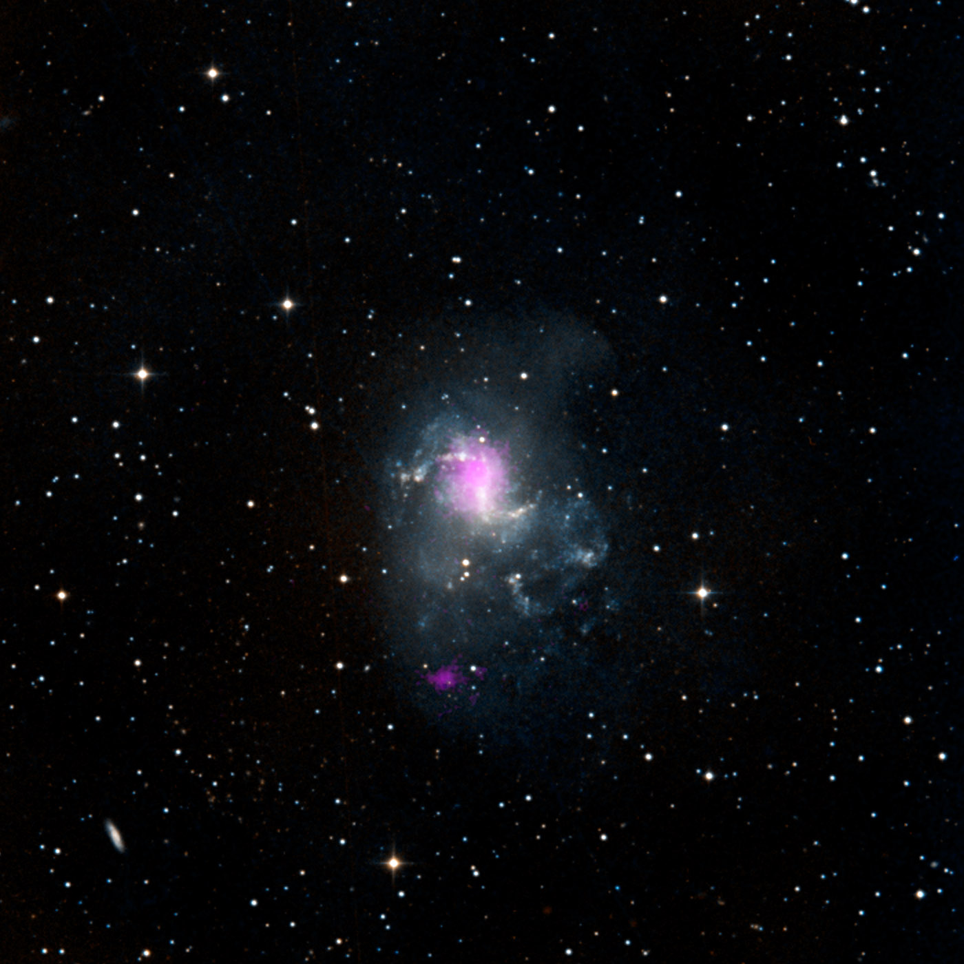 The magenta spots in this image show two black holes in the spiral galaxy called NGC 1313, or the Topsy Turvy galaxy. Both black holes belong to a class called ultraluminous X-ray sources, or ULXs. The magenta X-ray data come from NASA's Nuclear Spectroscopic Telescopic Array, and are overlaid on a visible image from the Digitized Sky Survey. ULXs consist of black holes actively accreting, or feeding, off material drawn in from a partner star. Astronomers are trying to figure out why ULXs shine so brightly with X-rays. NuSTAR's new high-energy X-ray data on NGC 1313 helped narrow down the masses of the black holes in the ULXs: the black hole closer to the center of the galaxy is about 70 to 100 times that of our sun. The other black hole is probably smaller, about 30 solar masses. The Topsy Turvy galaxy is located about 13 million light-years away in the Reticulum constellation.